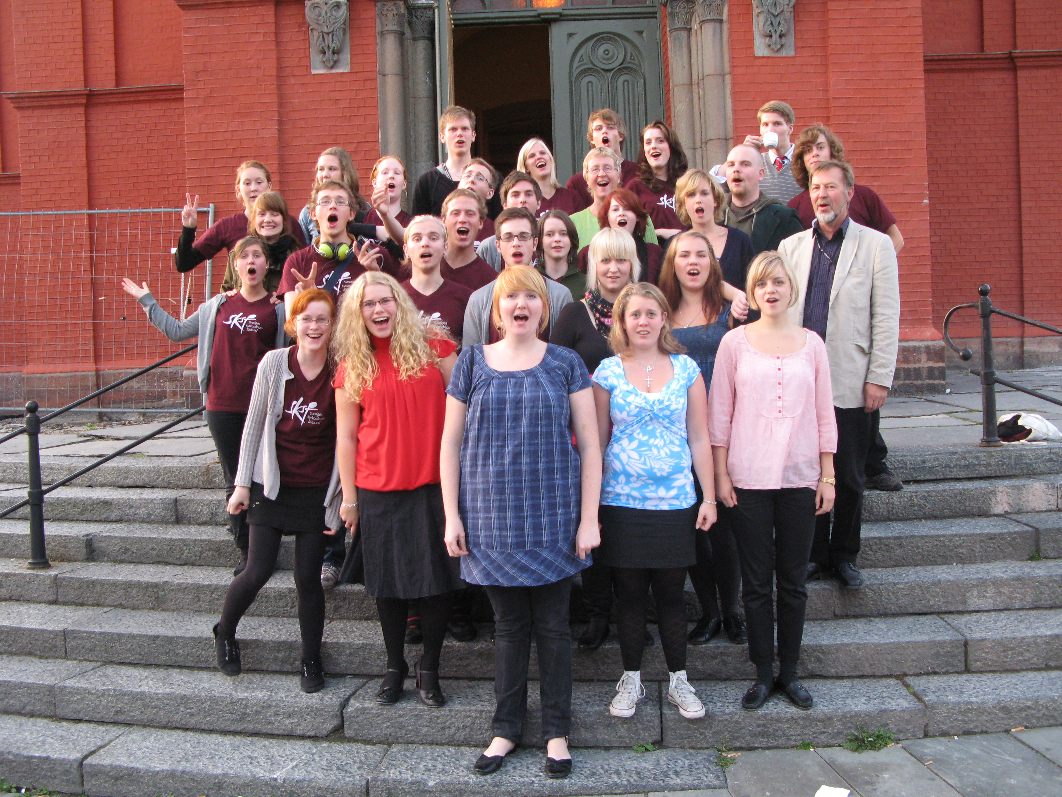 The Church of Sweden's national youth choir. Picture taken in Stavanger, Norway.